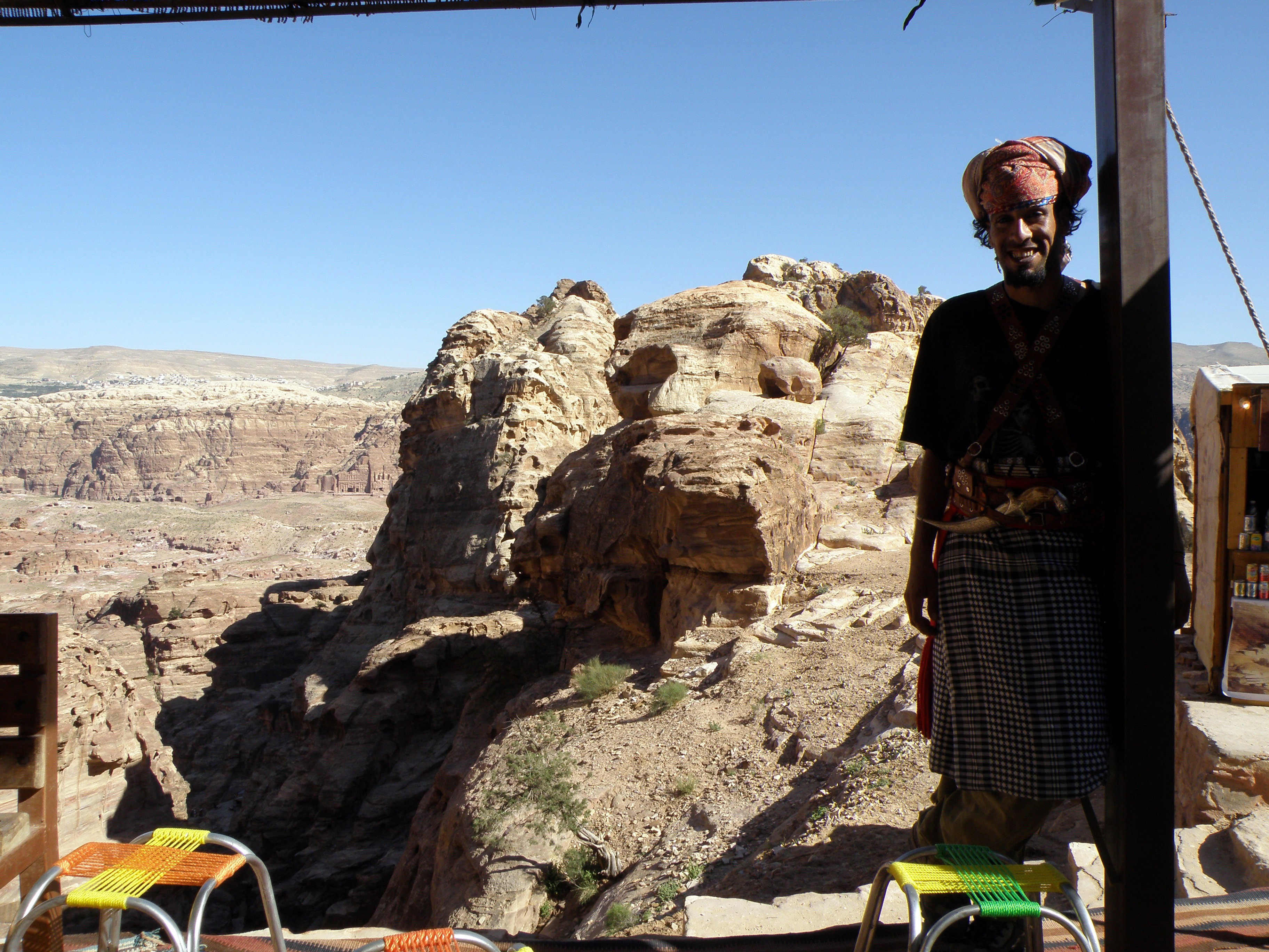 Beduin posing in Petra